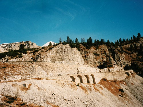 Passo di Falzarego picture taken by user Idéfix in 1999 earlier uploaded on Dutch Wikipedia as